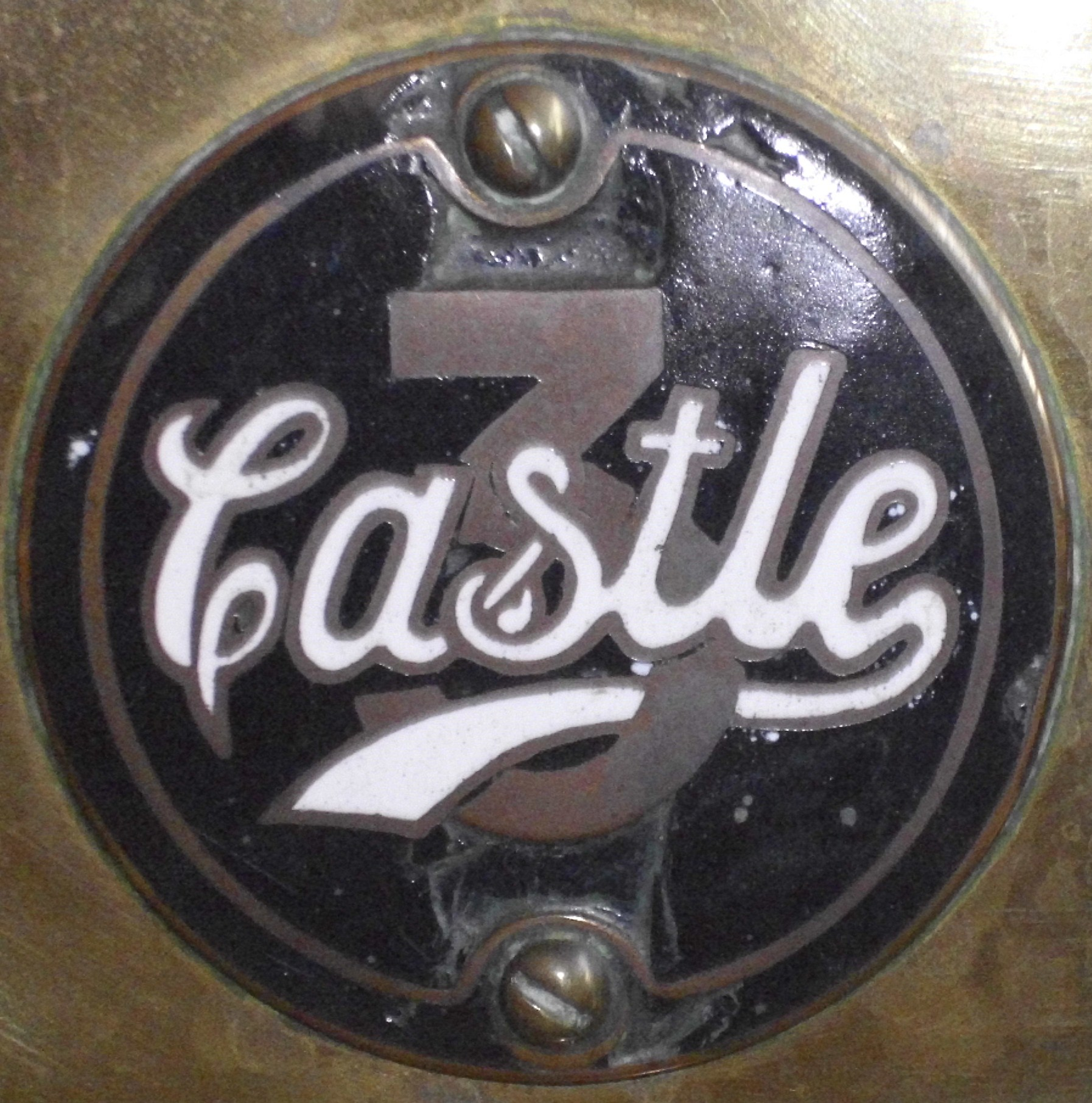 Emblem Castle Three